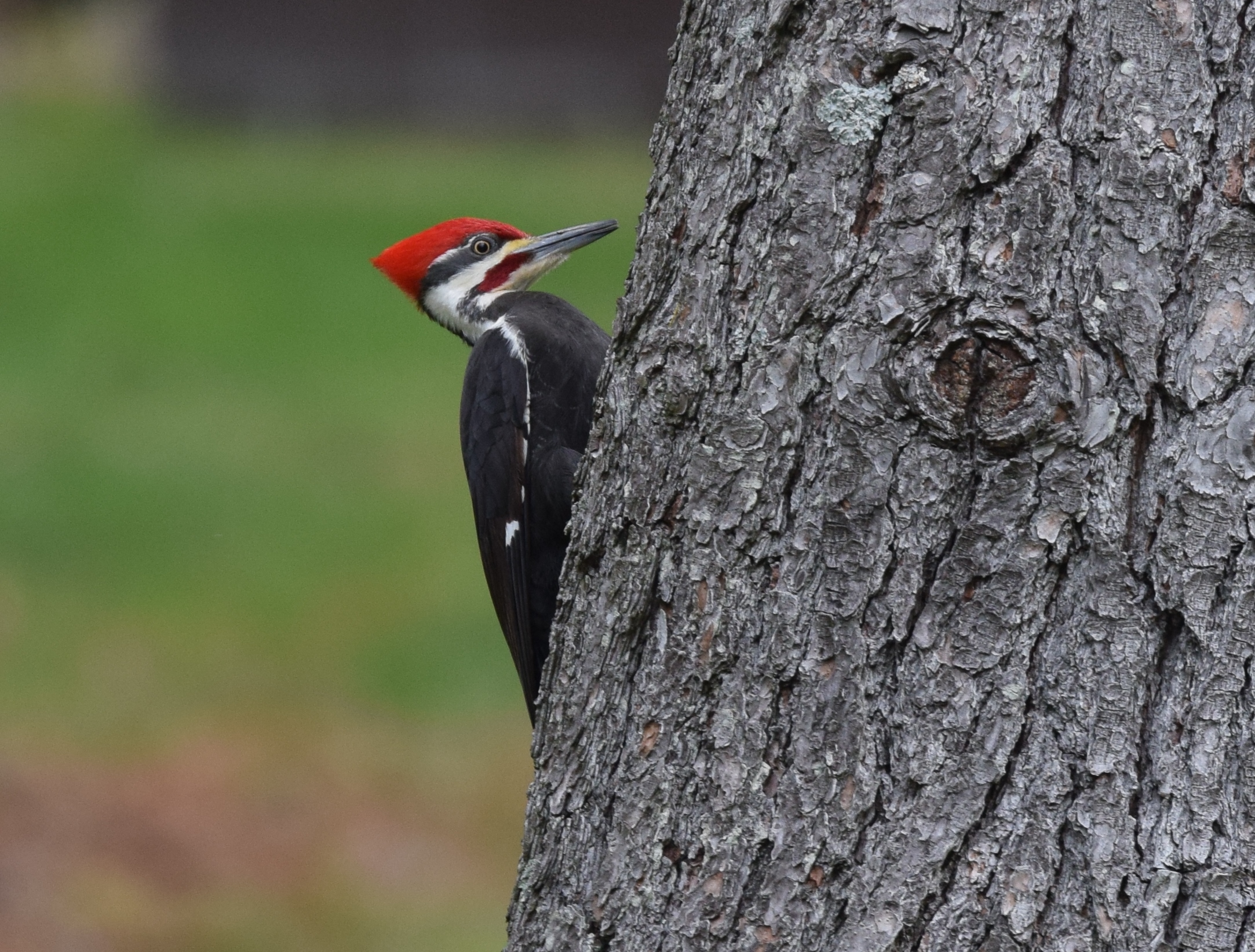 Rockwoods Reservation 4/11/16